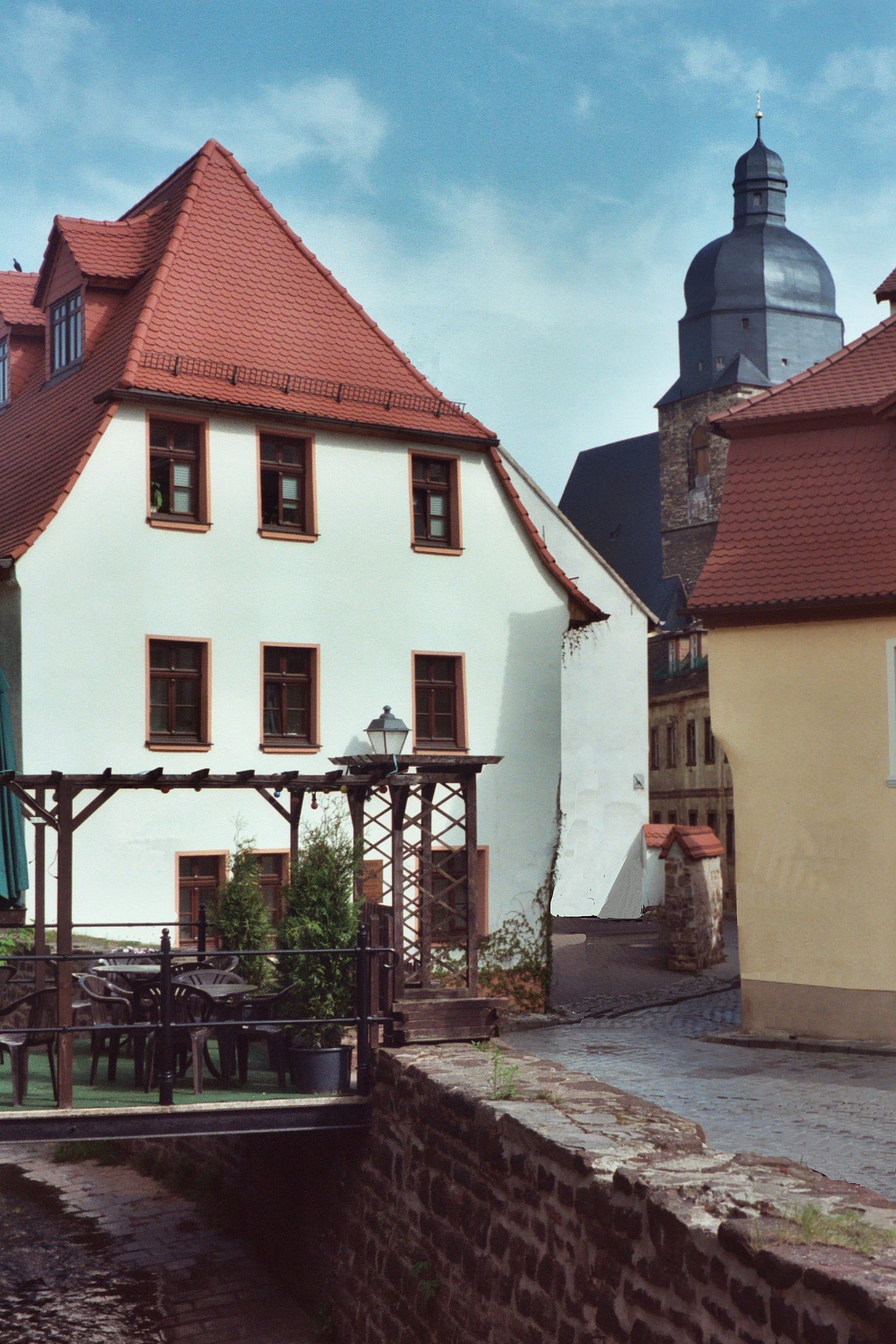 Lutherstadt Eisleben, house on the Böse Sieben